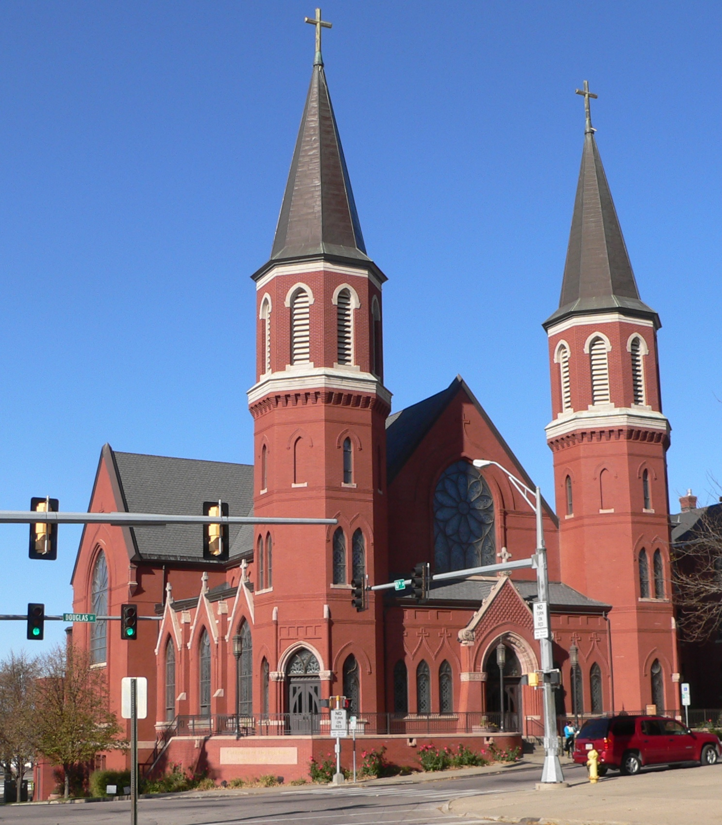 Cathedral of the Epiphany in Sioux City, Iowa; seen from the southeast.